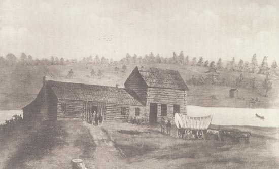 Shows Dixon's Ferry located along the Rock River in present day Dixon, Illinois, USA.